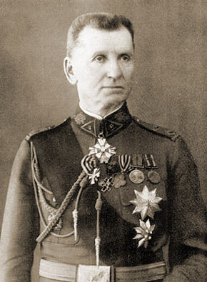 General Officer of Lithuania Silvestras Žukauskas